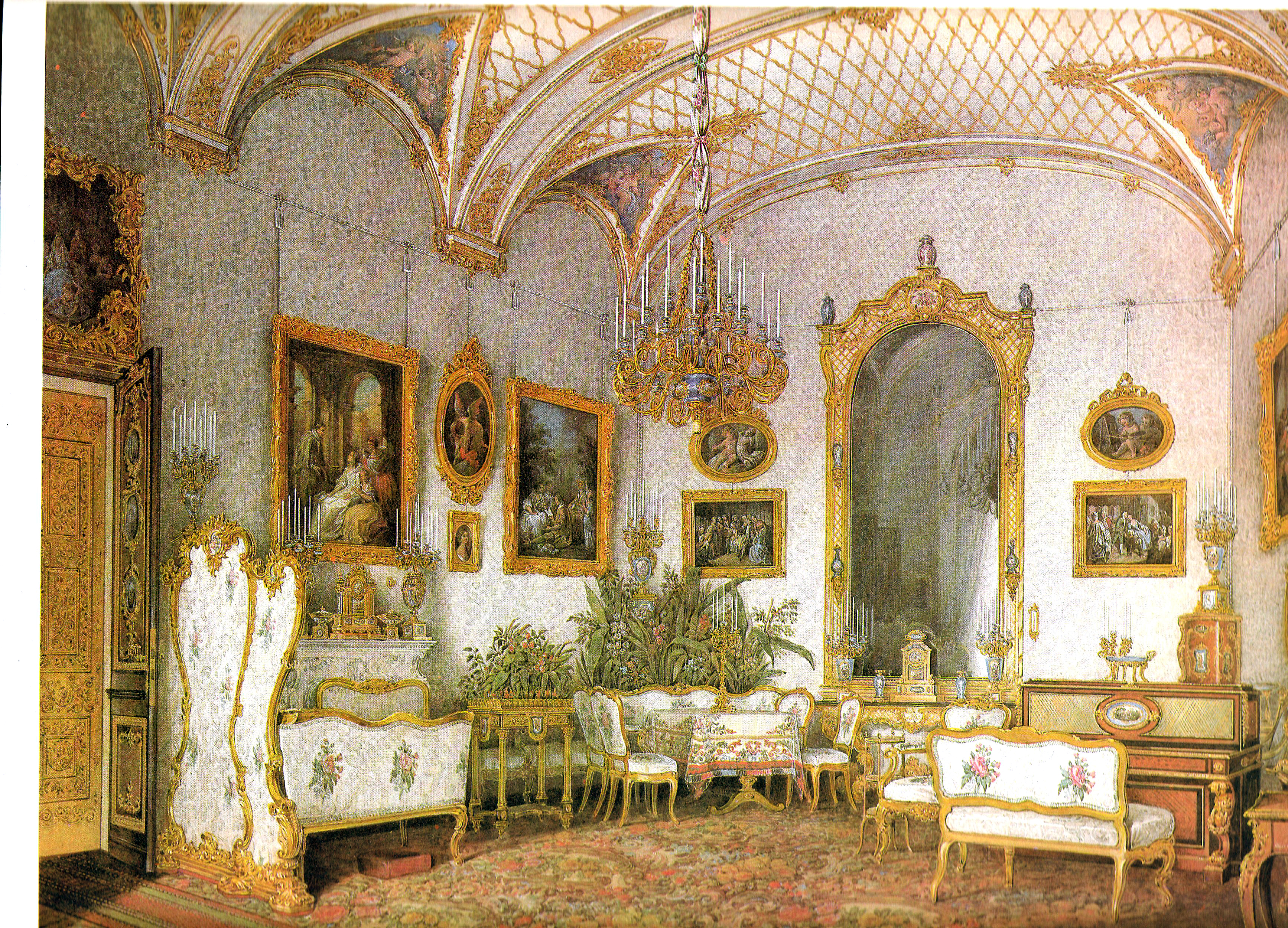 Interiors of the Winter Palace. The white drawing room in the North-Western Risolite (Alexandra Fedorovna suite)